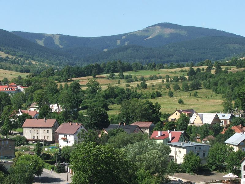 Czarna Góra and Żmijowiec in Śnieżnik Mountains (Sudetes, Poland) over town Stronie Śląskie